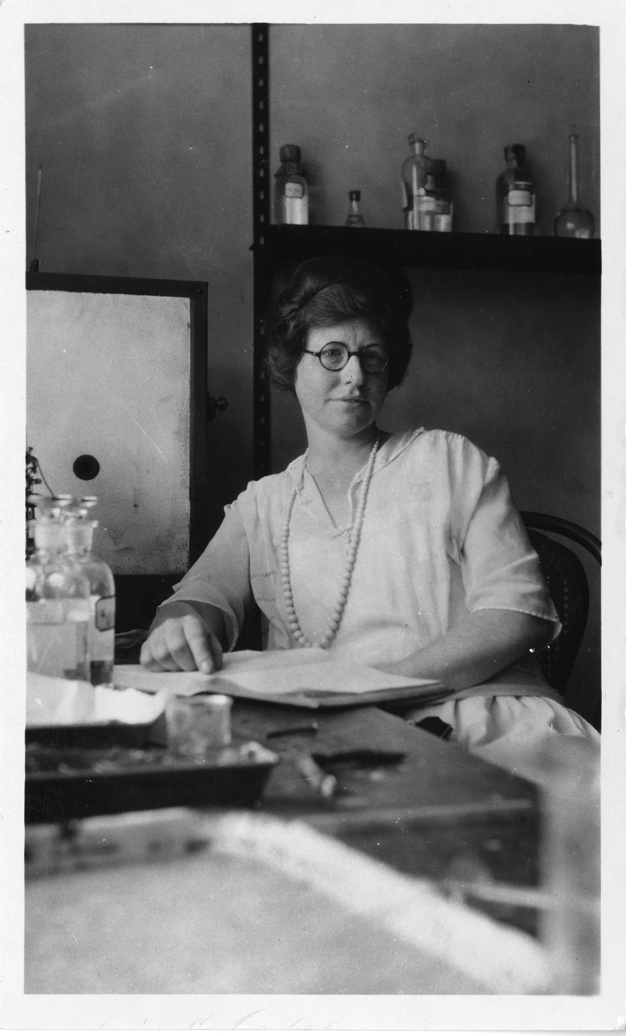 Between 1918 and 1924, physiologist Elizabeth M. Bright, then affiliated with the Laboratory of Physiology, Harvard Medical School, worked on the effects of radiation, publishing in such journals as Journal of General Physiology and Journal of Physiology. Science Service, now the Society for Science & the Public, was a news organization founded in 1921 to promote the dissemination of scientific and technical information. Although initially intended as a news service, Science Service produced an extensive array of news features, radio programs, motion pictures, phonograph records, and demonstration kits and it also engaged in various educational, translation, and research activities.